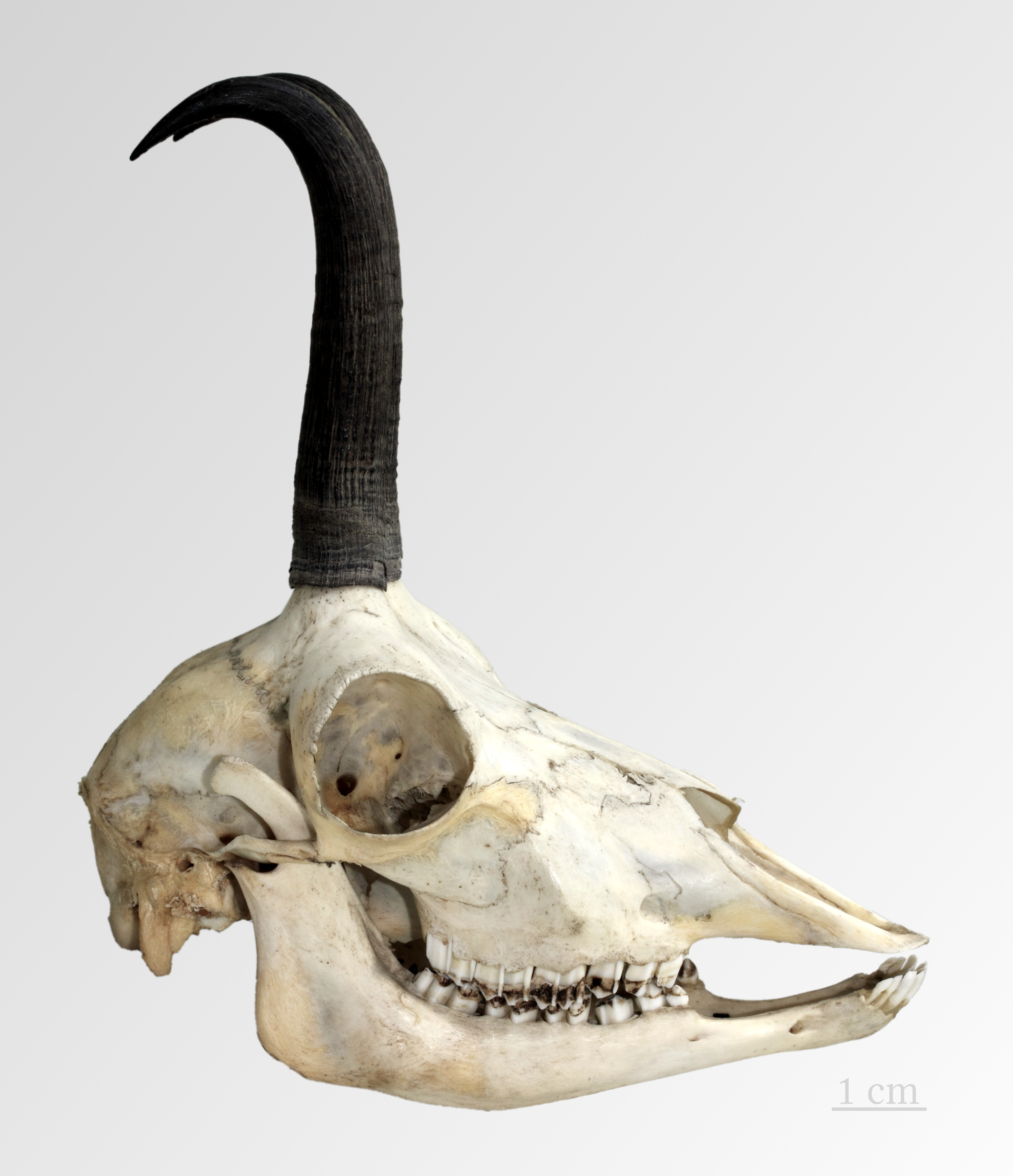 Pyrenean Chamois, Pyrenees.